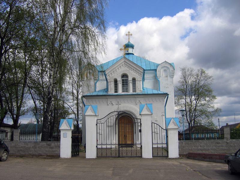 Orthodox church of Saints Peter and Paul in Uzda, Belarus